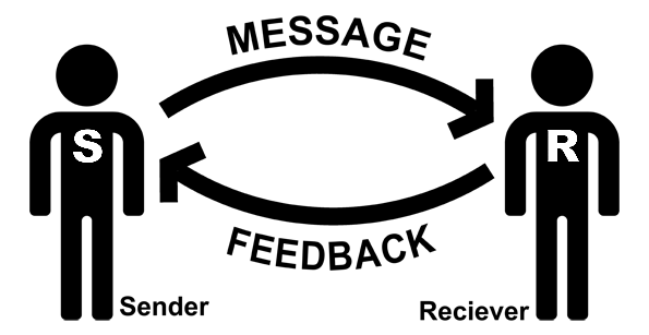 Basic Elements in Interpersonal Communications, reworked graphic, Robert M. Thomas 2007, released to public domain. Romith 23:21, 30 March 2007 (UTC)